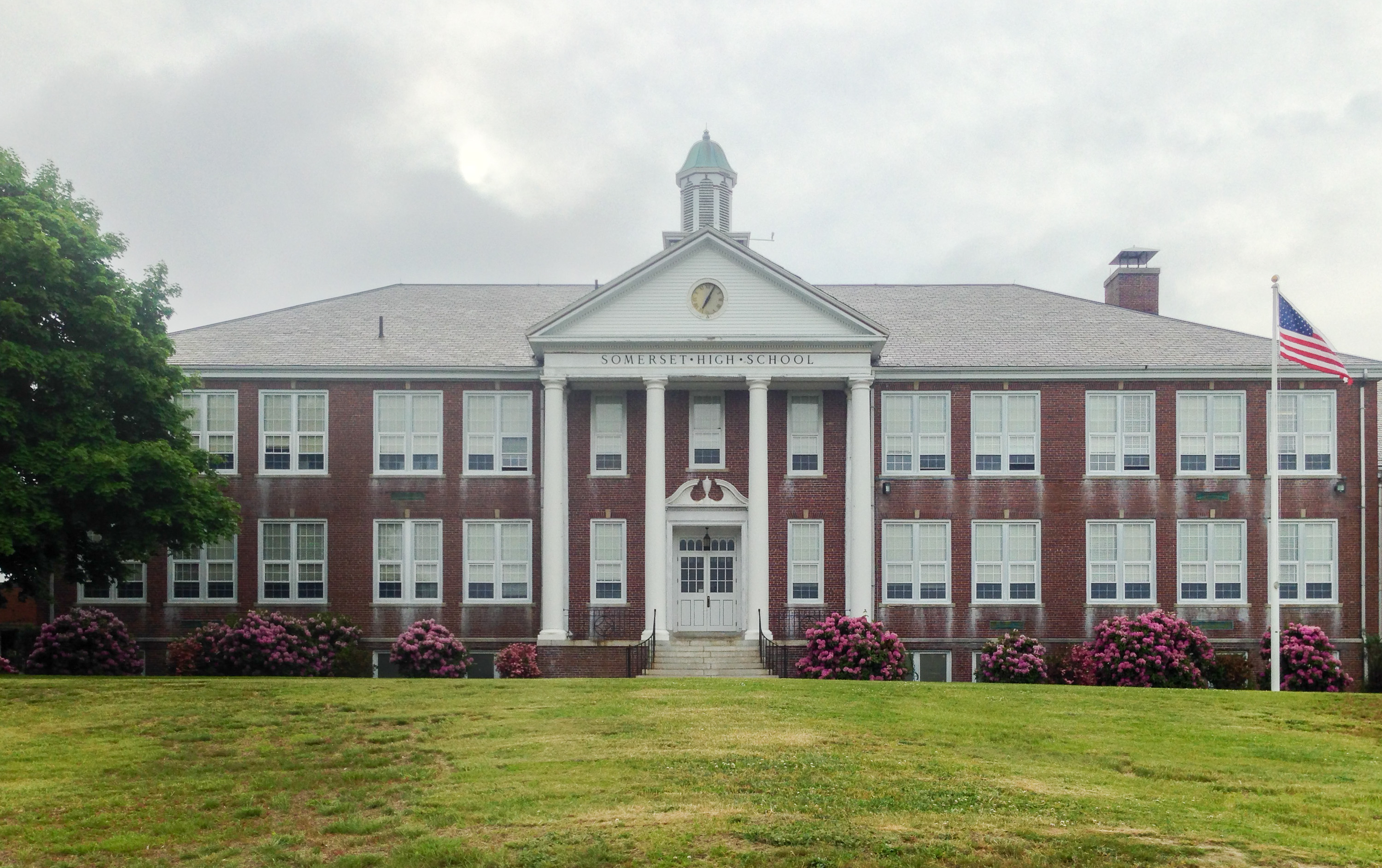 Old school, taken early in 2014. This school was torn down later in 2014.